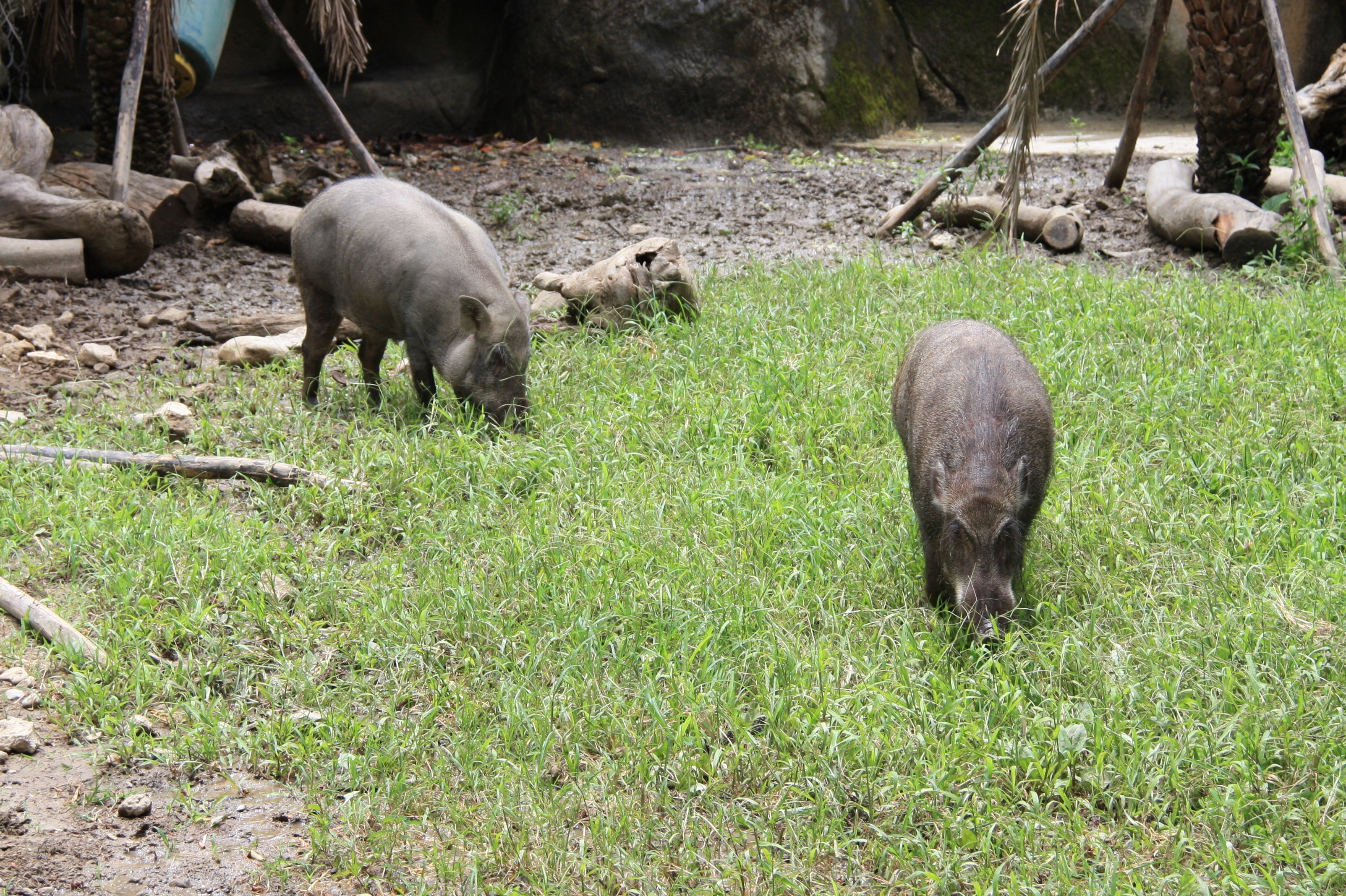 TáiběiWénshān DistrictTáiběi ZooFormosan Wild boarSus scrofa taivanus